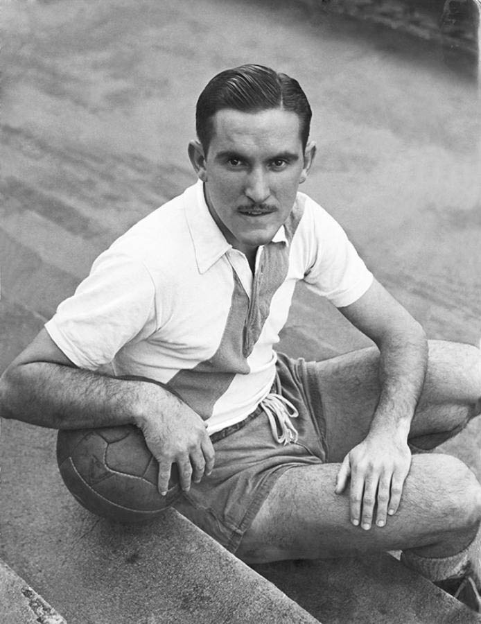 Eliseo Mourino in Banfield.